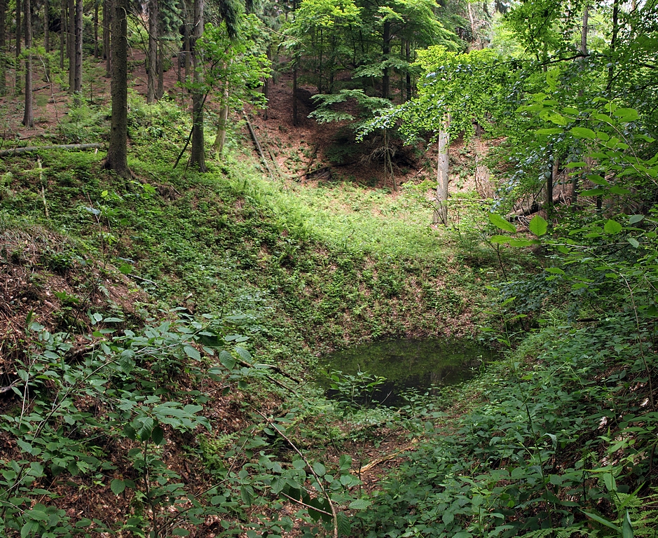 Saxon Switzerland: a former basalt-quarry near the Gohrisch (440 metres). The quarry is protect as a natural monument.